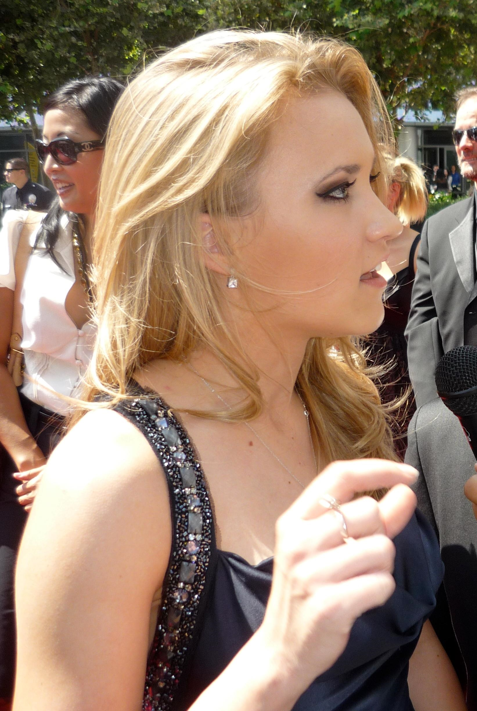 Emily Osment at the Creative Arts Emmys on Saturday night.